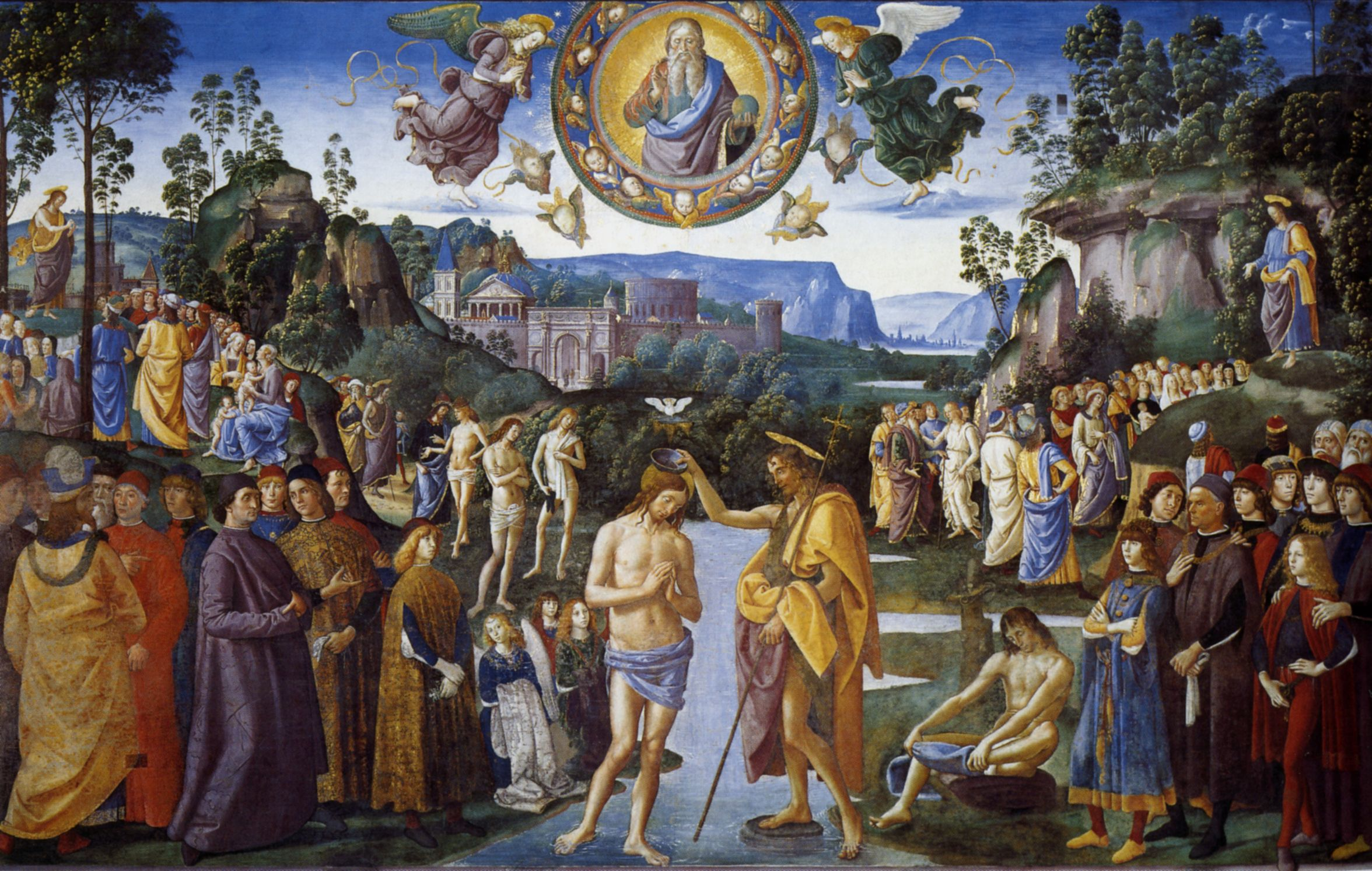 first painting on the North Wall, from left/west to right/east